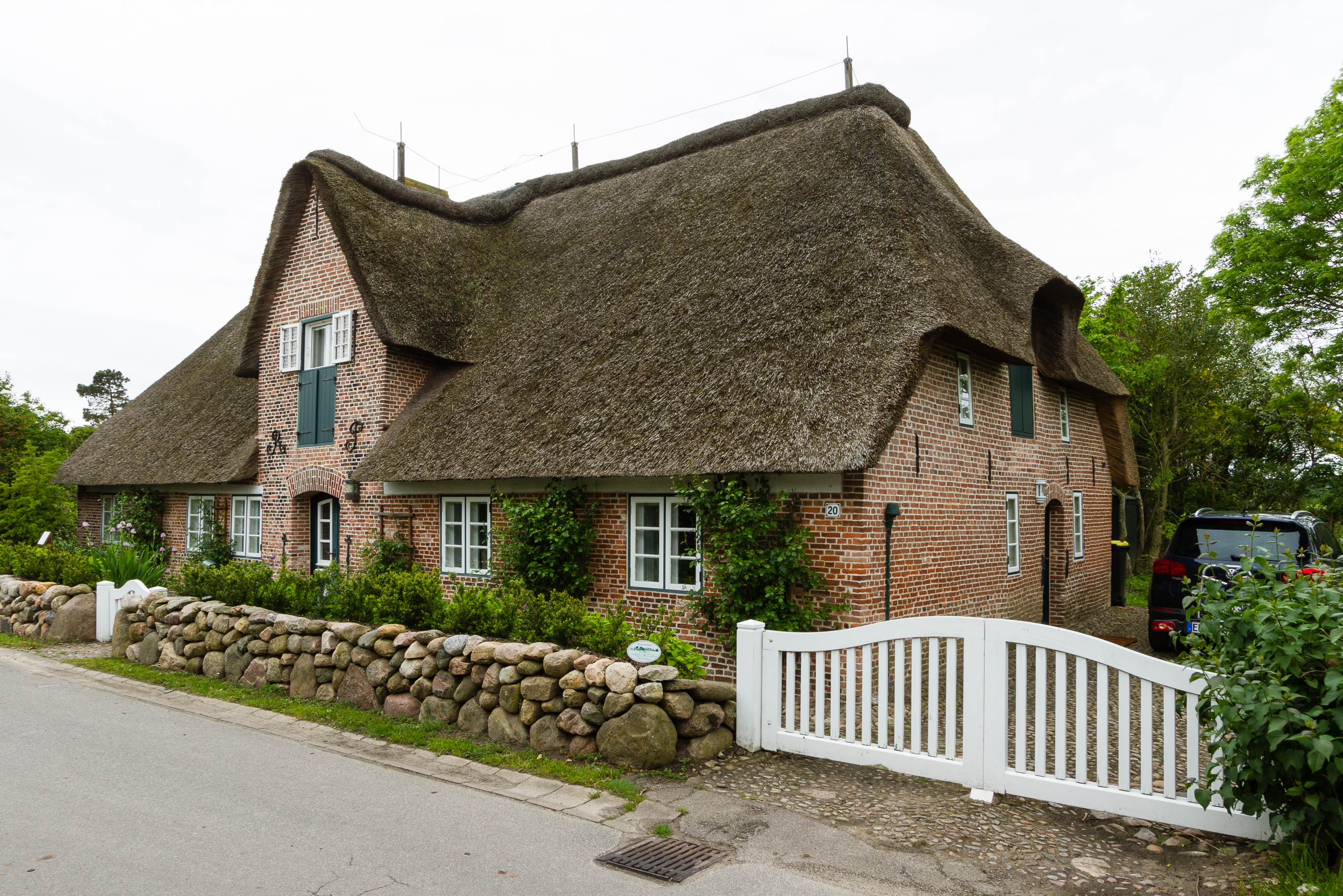 Designation: Uthland-Frisian house Location: Guatingwai House number: 20 Place: Goting, Municipality Nieblum, Collective municipality Föhr-Amrum, District Nordfriesland, Schleswig-Holstein, Federal Republic of Germany Object identification: 5188